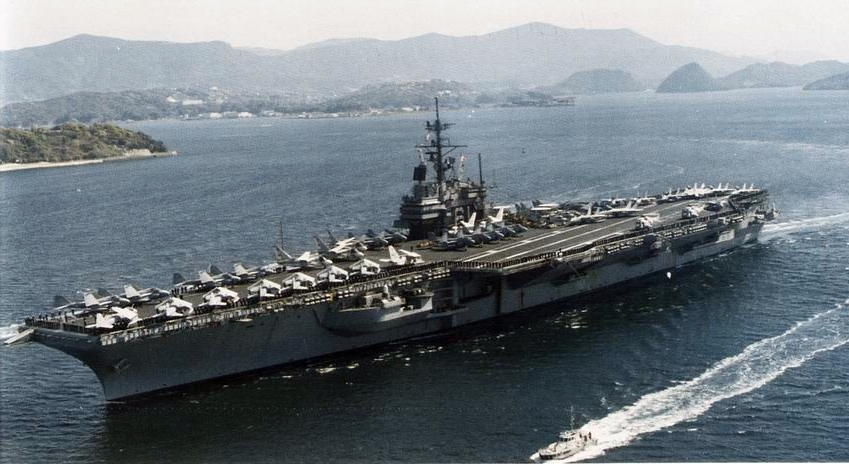 The U.S. Navy aircraft carrier USS Ranger (CV-61) in 1987. The Ranger, with Carrier Air Wing 2 aboard, was deployed to the Western Pacific and the Indian Ocean from 14 July to 30 December 1987.